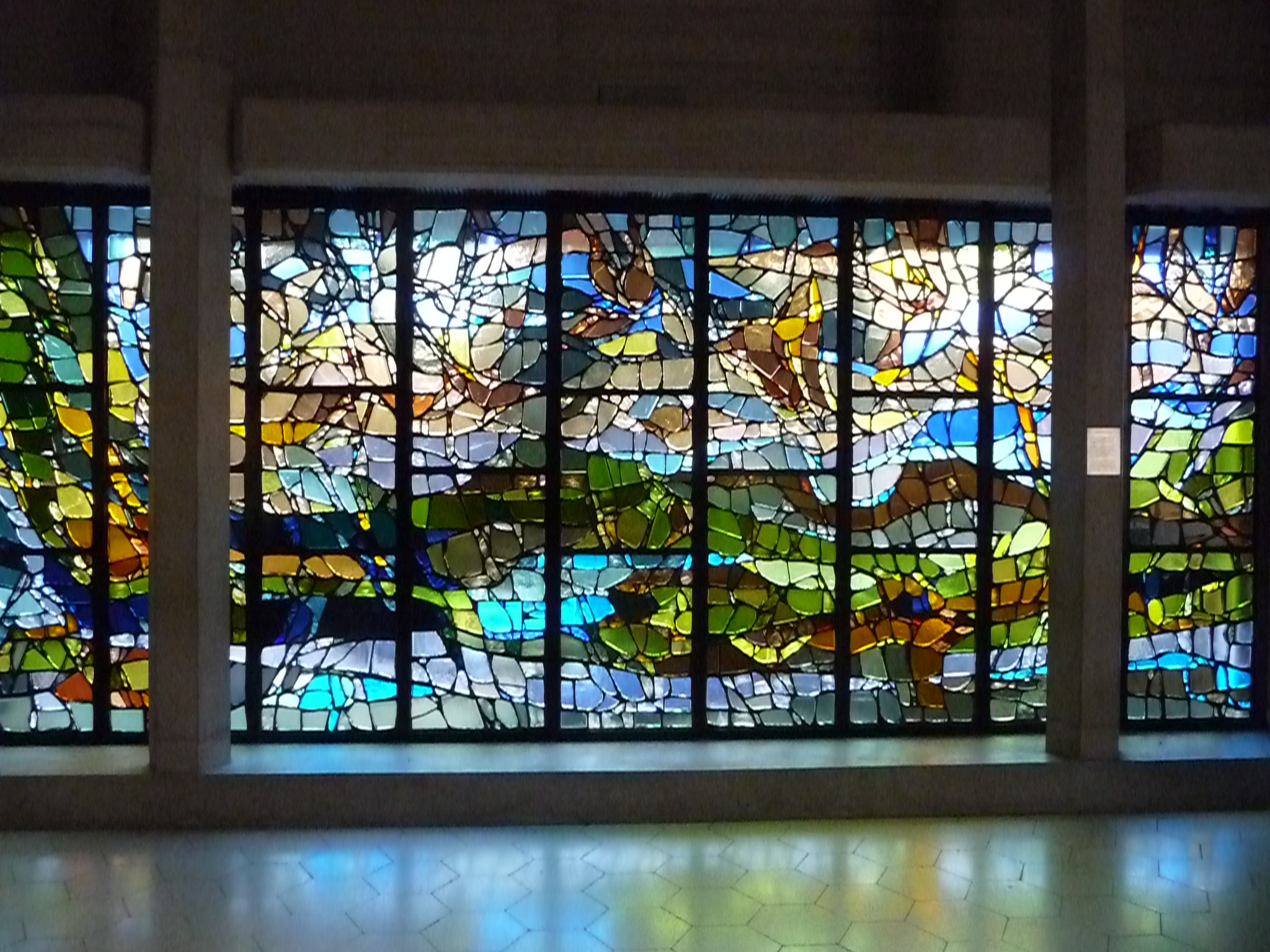 Clifton Cathedral